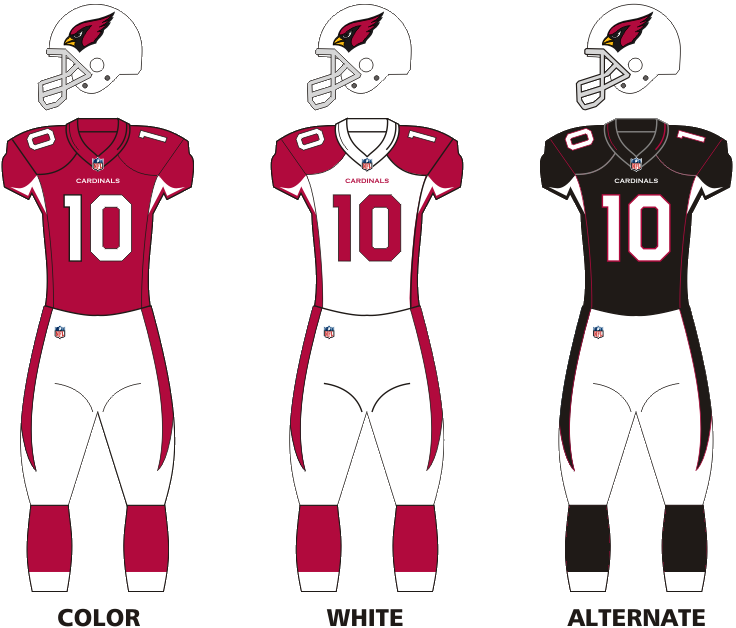 The uniforms of the Arizona Cardinals since the 2005 NFL season.